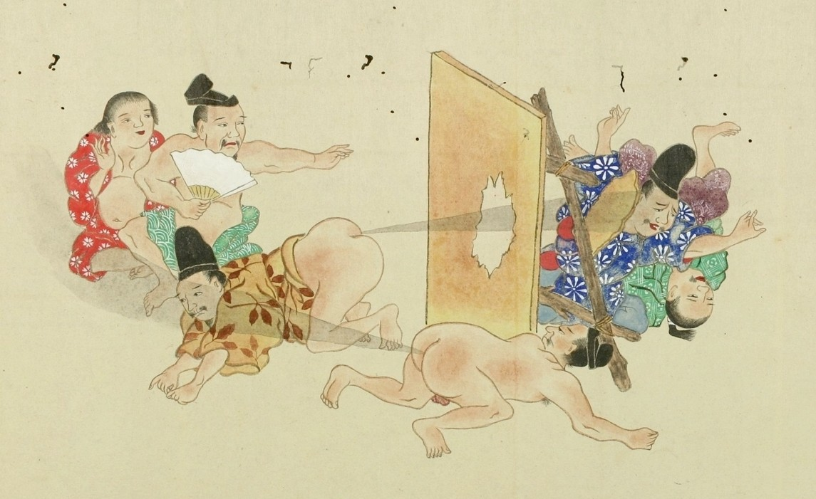 Hegassen scroll detail. He-gassen, Fart Battle, 1864